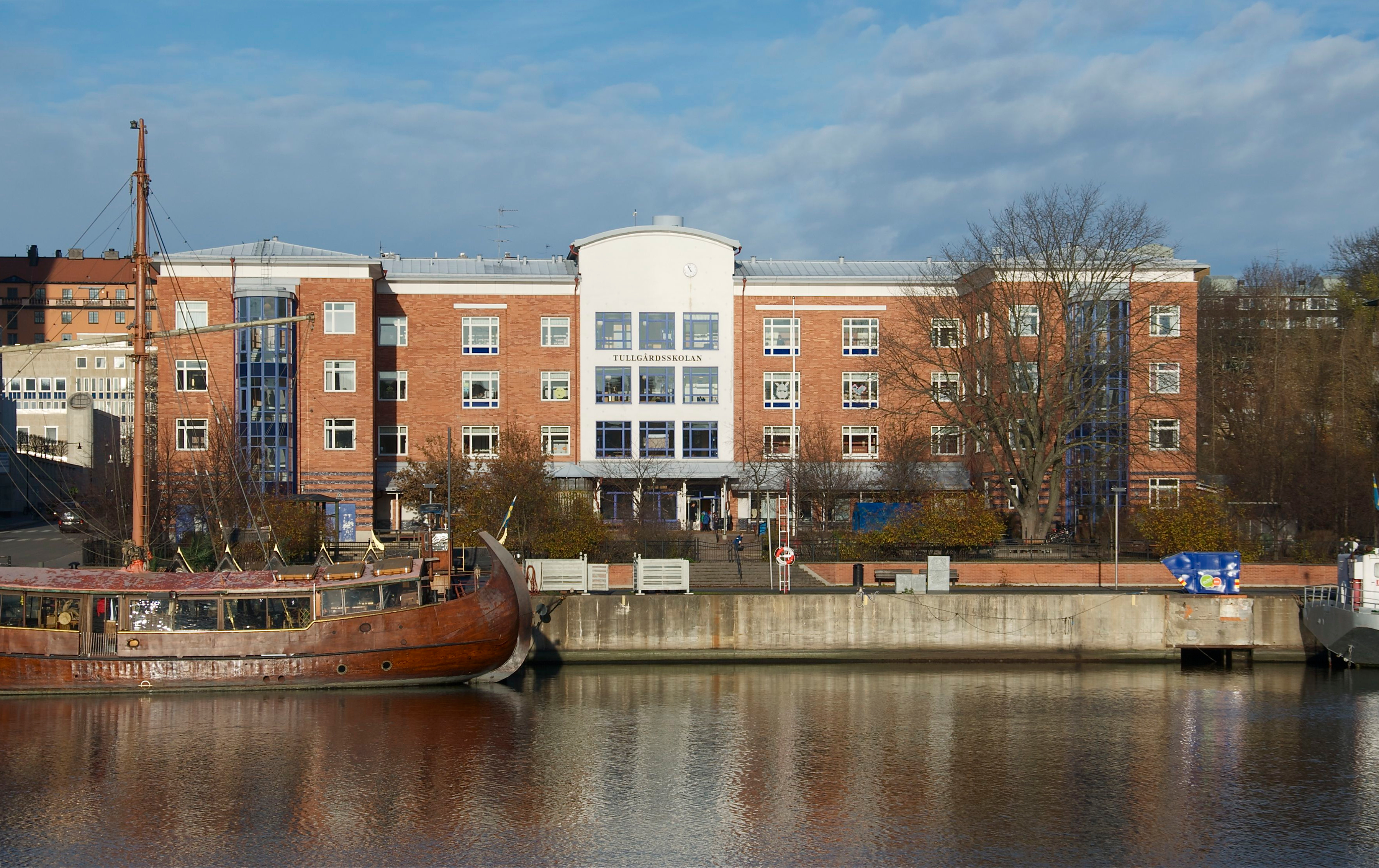 Tullgårdsskolan (The Tullgård school), Norra Hammarbyhamnen, Södermalm, Stockholm.